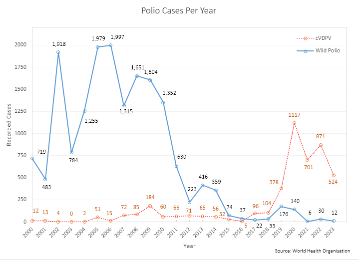 Chart showing number of Wild polio cases and circulating Vaccine Derived Polio Virus (cVDPV) cases per year since 2000.